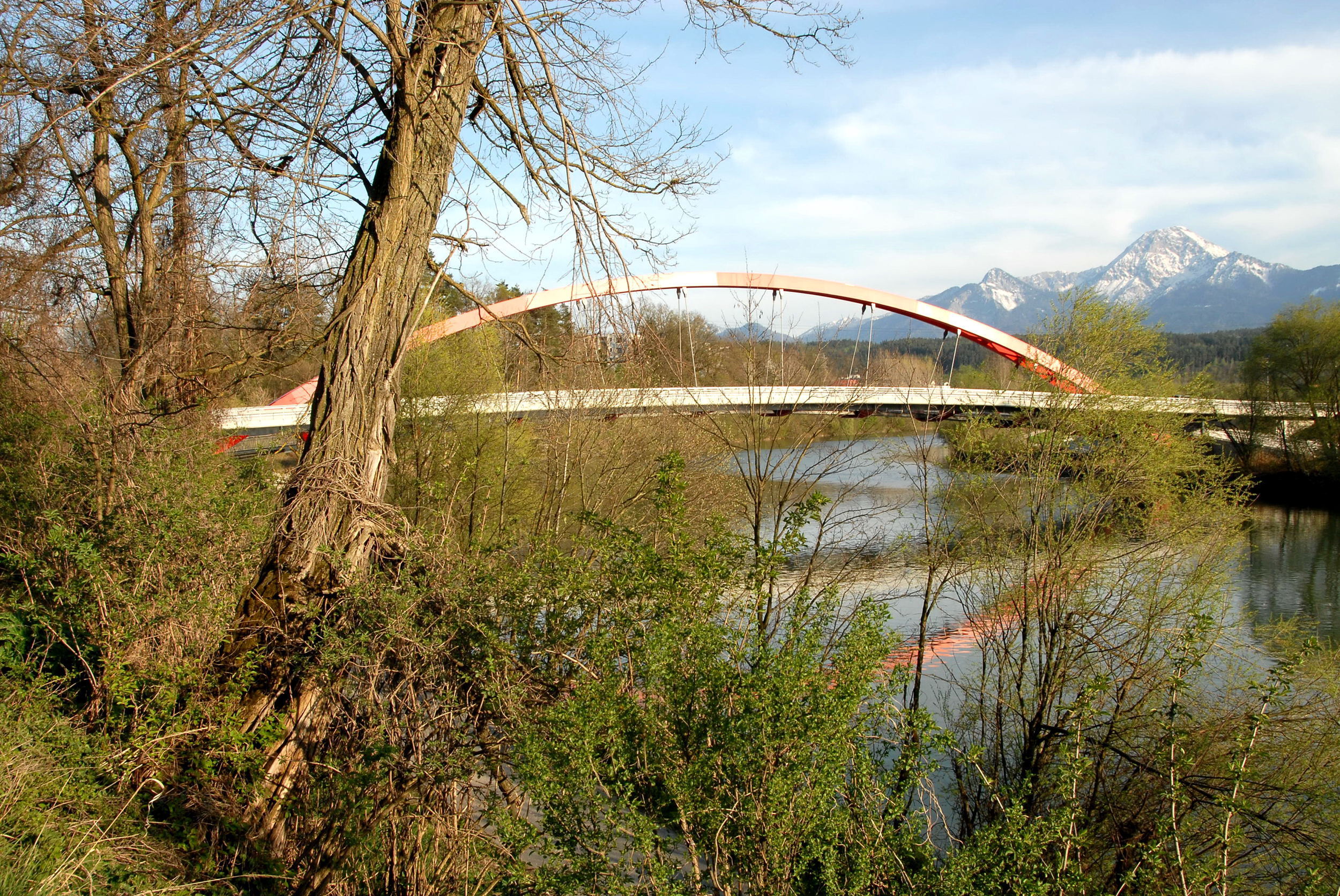 Pedestrian bridge across Drau river near locality Saint Magdalene, municipality Villach, Carinthia, Austria, EU